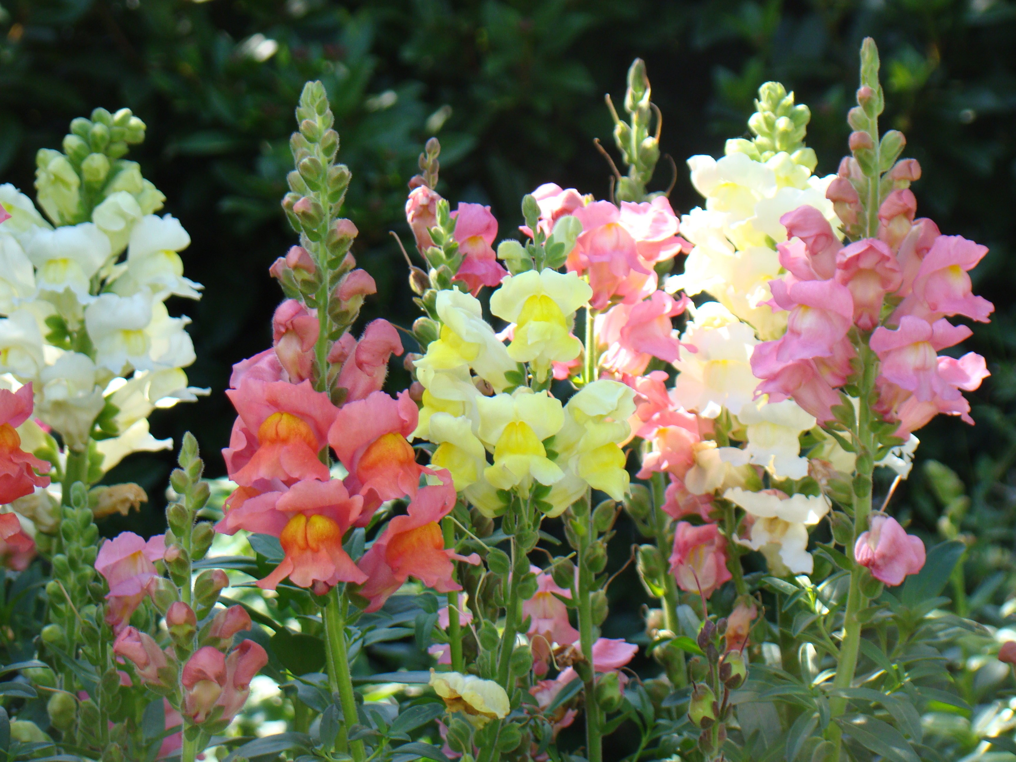 Multi coloured snapdragons in summer